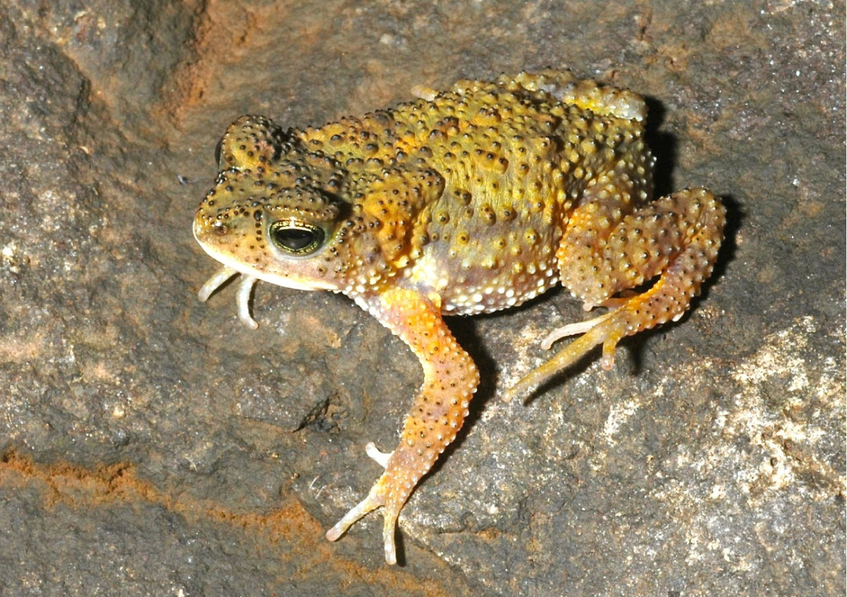 Xanthophryne koynayensis, an adult male, from Koyna, Maharashtra, India